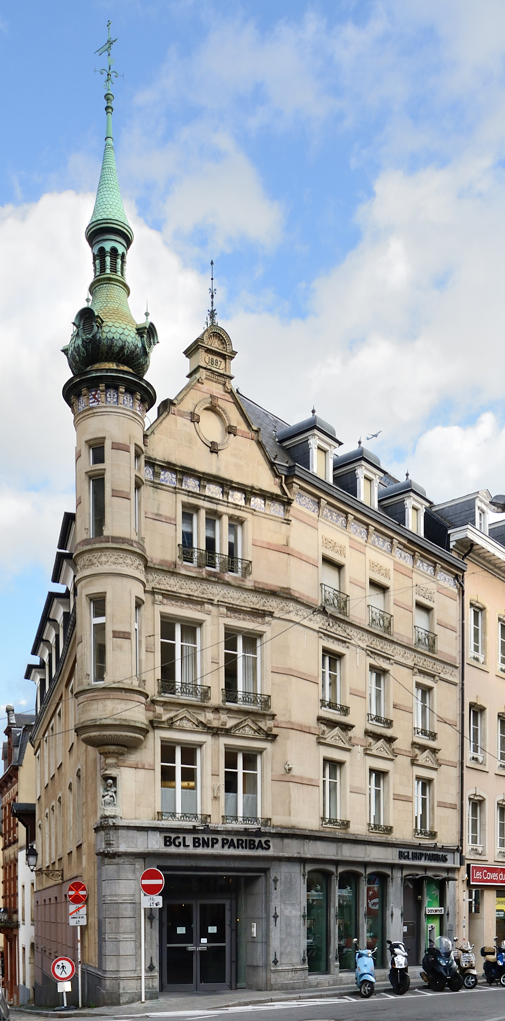 Luxembourg City: maison Conrot-Lenoël, 1-3 rue Marché-aux-Herbes, as seen from Grand-Rue.